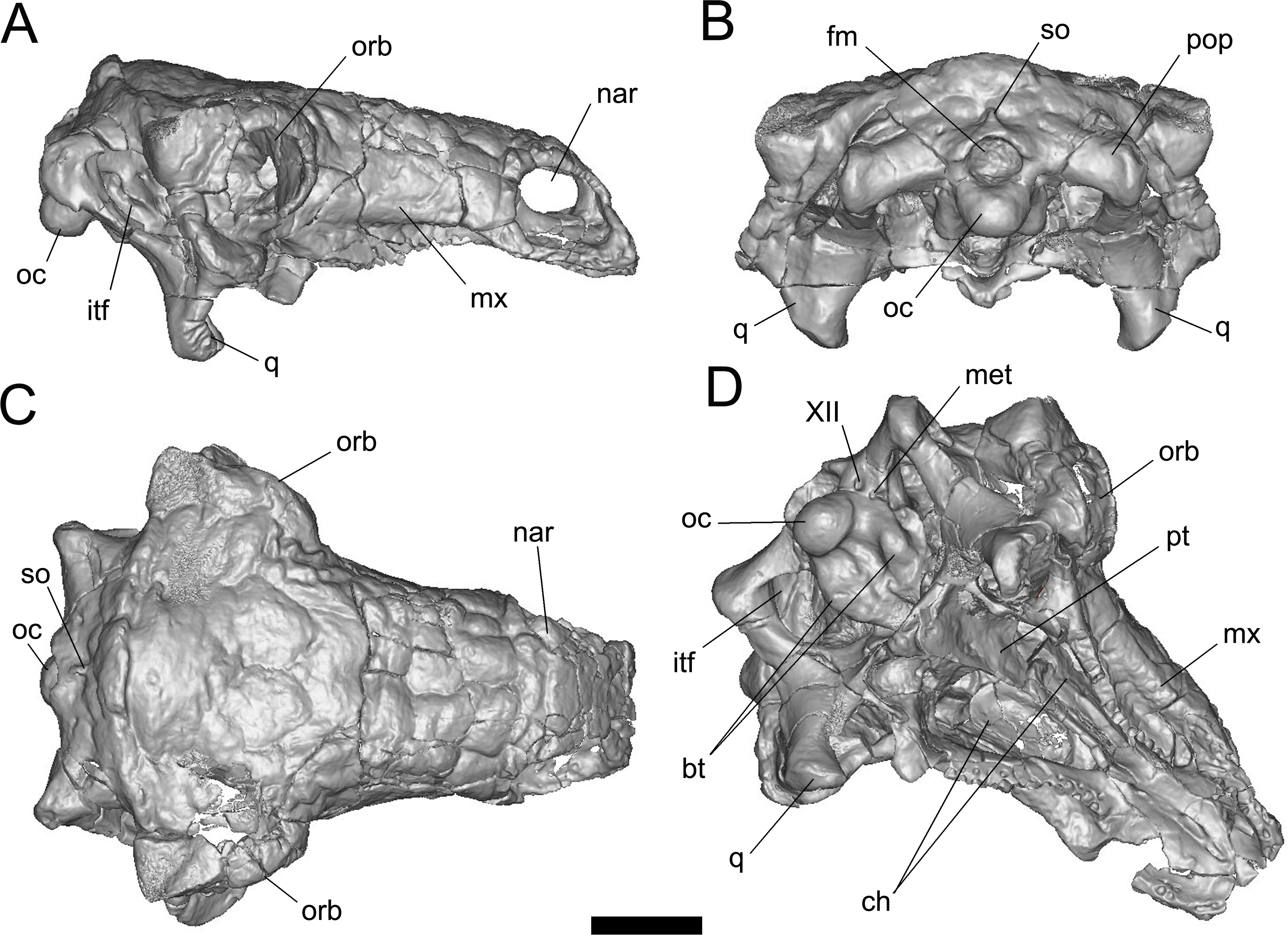 Volume-rendered CT-based reconstruction of the skull of the nodosaur dinosaur Pawpawsaurus campbelli (FWMSH93B.00026). Skull in right lateral (A) posterior, (B) dorsal, (C) and lateroventral, (D) views. Abbreviations: bt, basal tuber; ch, choana; fm, foramen magnum; itf, infratemporal fenestra; met, metotic foramen (for CN IX–XI and jugular vein); mx, maxilla; nar, external nostril; oc, occipital condyle; orb, orbit; pop, paroccipital process; pt, pterygoid; q, quadrate; so, supraoccipital. Scale bar equals 5 cm.